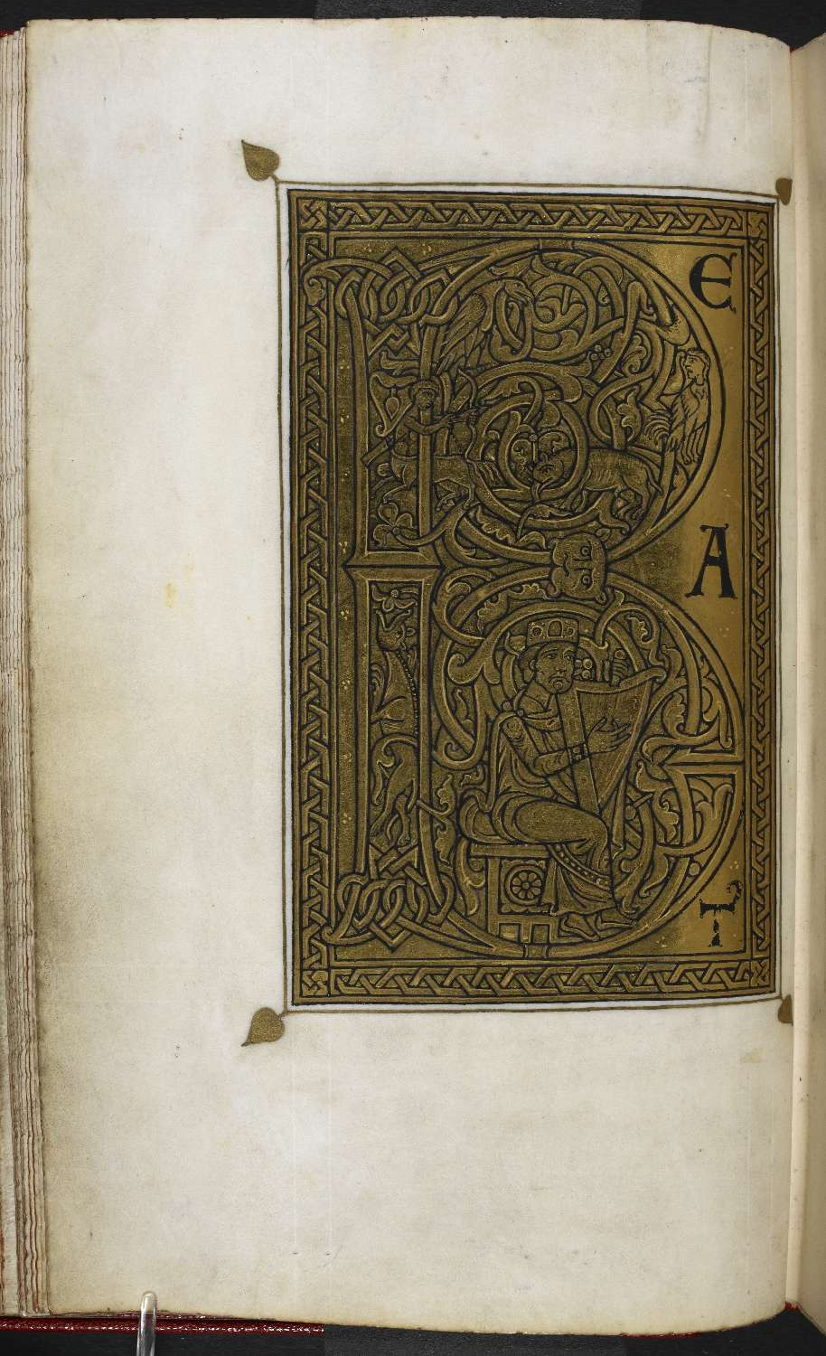 Melisende Psalter f23v, incipit psalm 1, Beatus vir